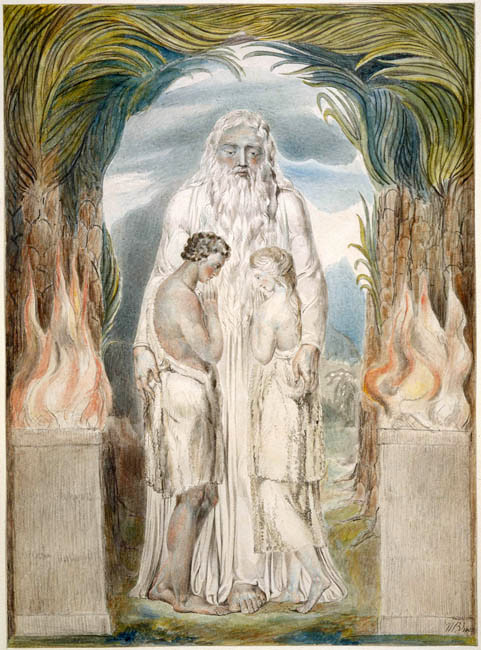 The Angel of the Divine Presence Clothing Adam and Eve with Coats of Skins, object 1 (Butlin 436) Work Information Title: The Angel of the Divine Presence Clothing Adam and Eve with Coats of Skins Origination: William Blake: inventor, delineator, colorist Composition Date: 1803 Number of Objects: 1 Object Size: 39.3 x 28.7 cm. Number of Leaves: 1 Leaf Size: 39.3 x 28.7 cm. Medium: pencil and water color Support: wove paper Watermark: none recorded Penned Numbers: none Frame Lines: none Provenance Name: Fitzwilliam Museum Date: 1949 Dealer: none recorded Price: £1365 Note: Commissioned and acquired from Blake by Thomas Butts; by inheritance in 1845 to Thomas Butts, Jr.; by inheritance to Captain F. J. Butts; his widow; sold April 1906 through Carfax & Co. to W. Graham Robertson; sold from Robertson's collection, Christie's, 22 July 1949, lot 2 (£1365 to the executors of Robertson's estate for presentation through the National Arts Collection Fund to the Fitzwilliam Museum). Present Location Fitzwilliam Museum Trumpington Street Cambridge CB2 1RB United Kingdom